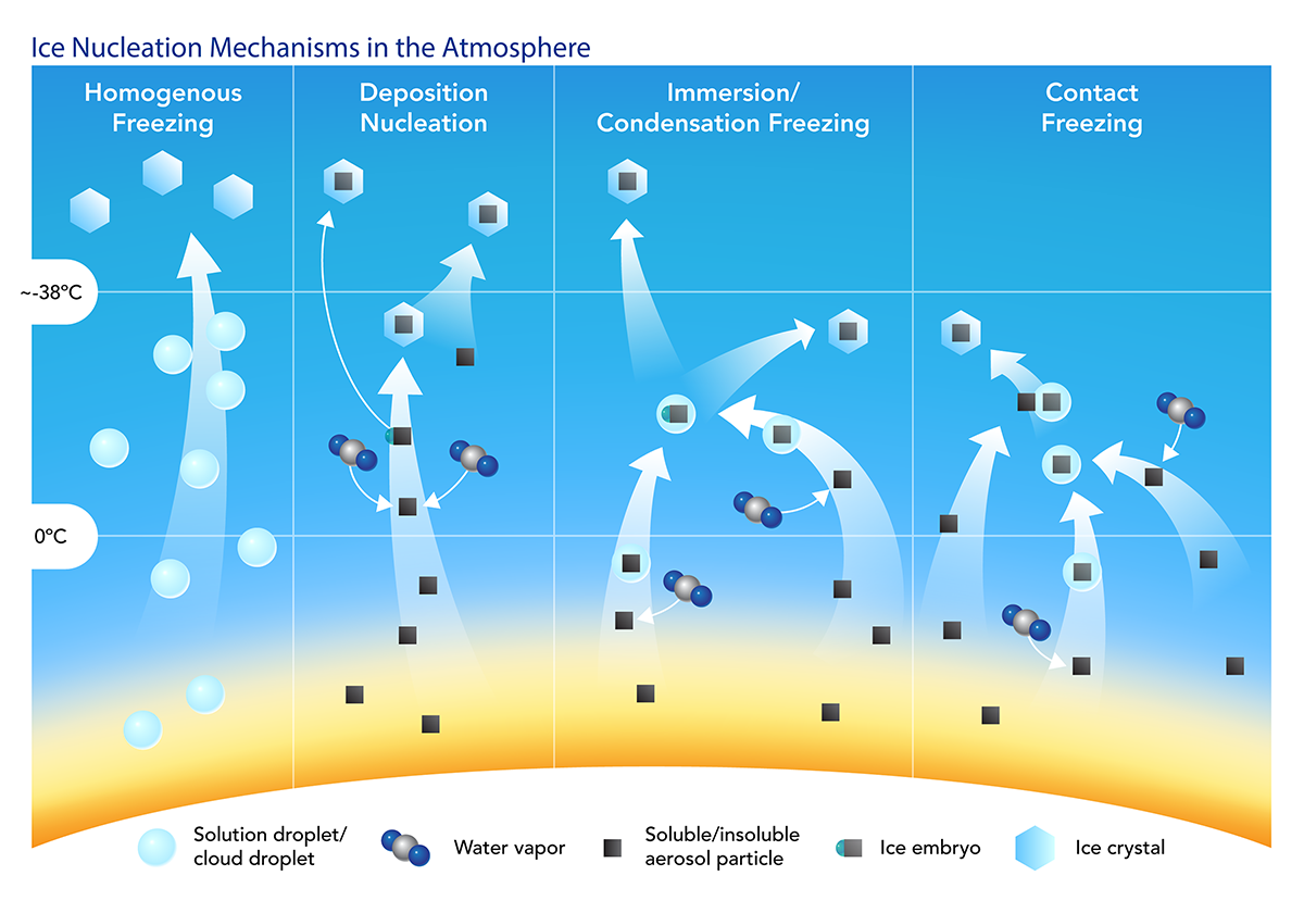 Various ice nucleation mechanisms in the atmosphere or modes of ice formation in clouds.